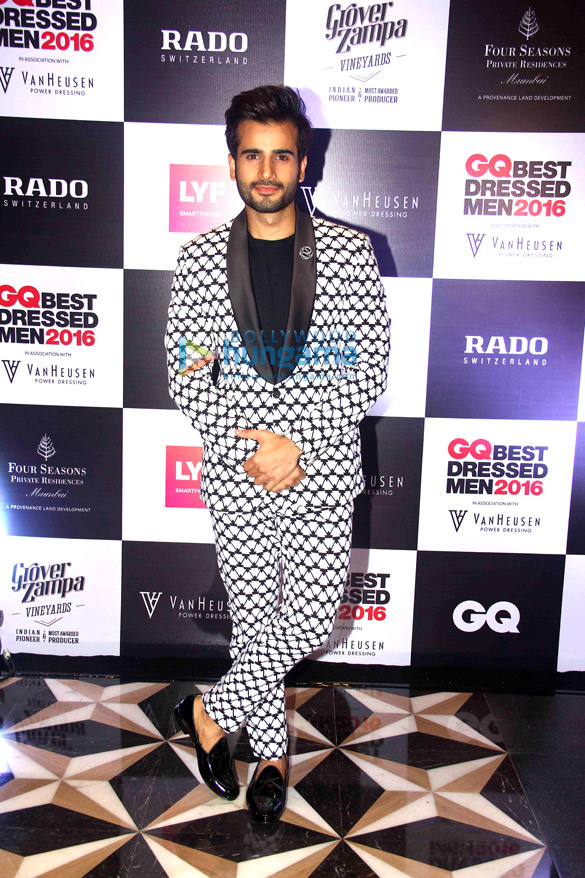 Karan Tacker gracing ‘GQ Best Dressed Men 2016’